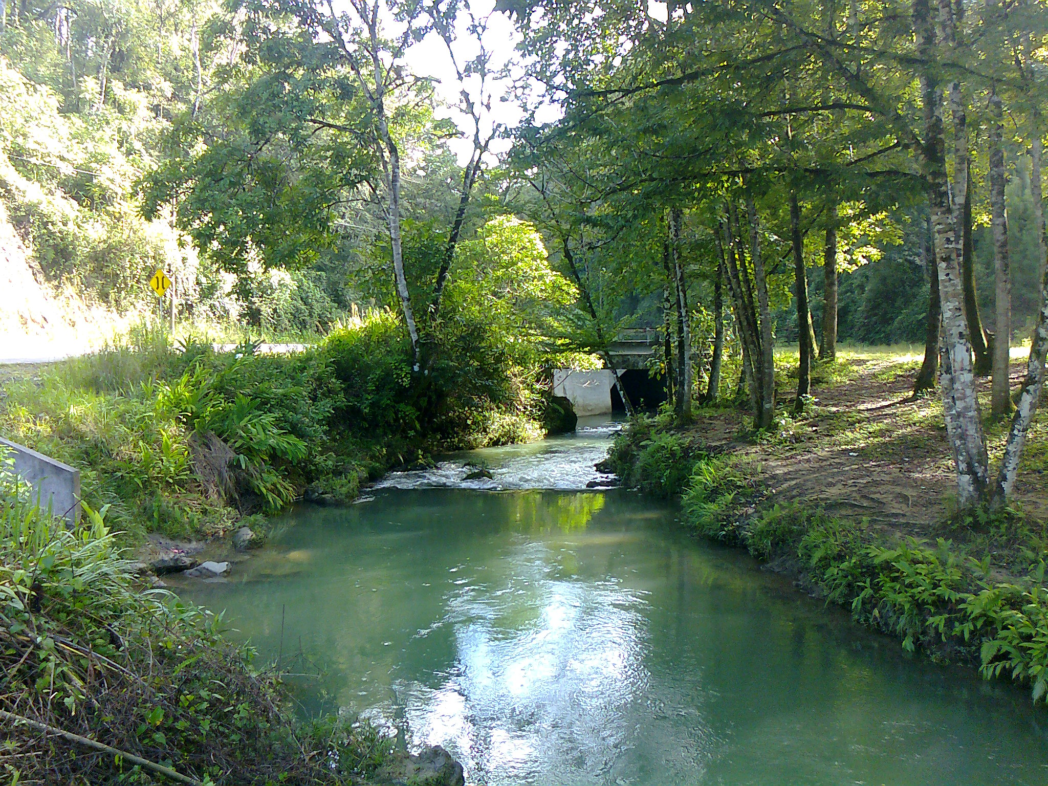 Aldea Coxopur, Cobán, Alta Verapaz